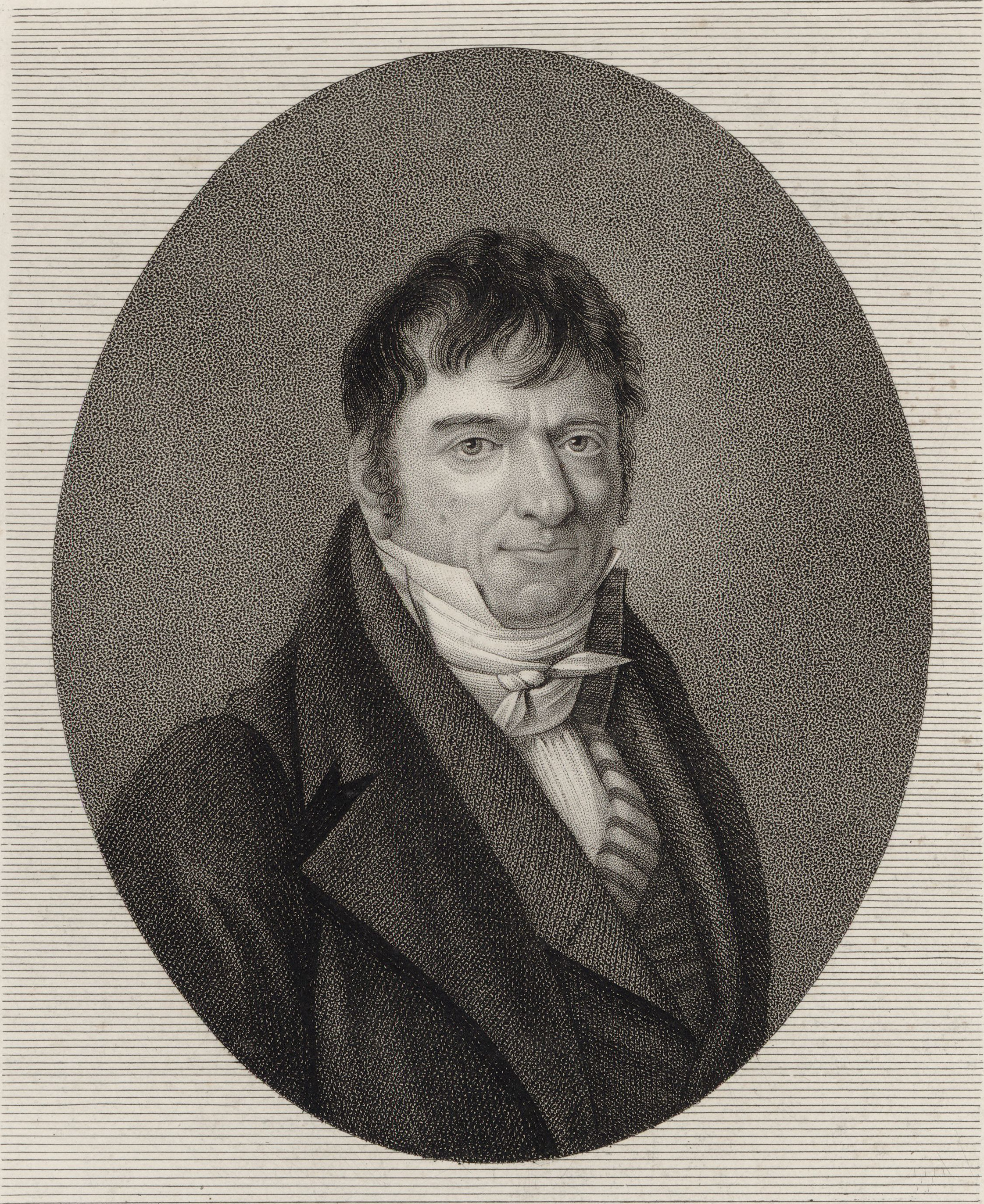 French cellist and composer Jean-Pierre Solié (1755-1812) by Cardon after Henri-François Riesener (1767-1828)